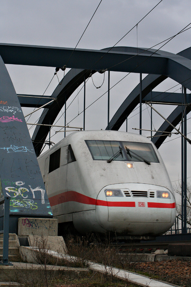 An ICE 1 on the Hannover-Berlin high-speed railway line, crossing the Havelkanal bridge, near Wustermark